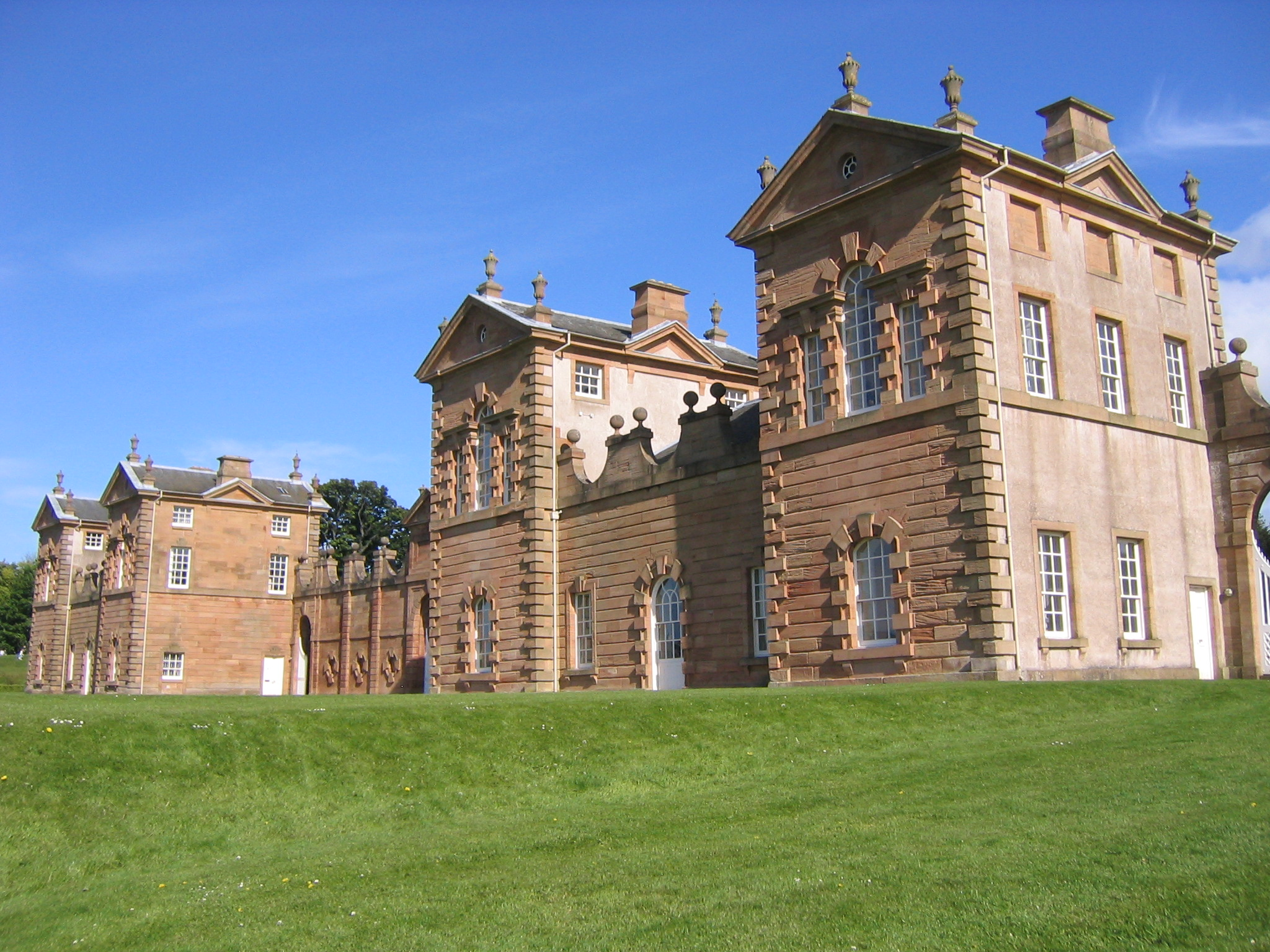 The Duke of Hamilton's hunting lodge in, what is now, Chatelherault Country Park. Taken by me, Alistair McMillan, on 15 May 2005.